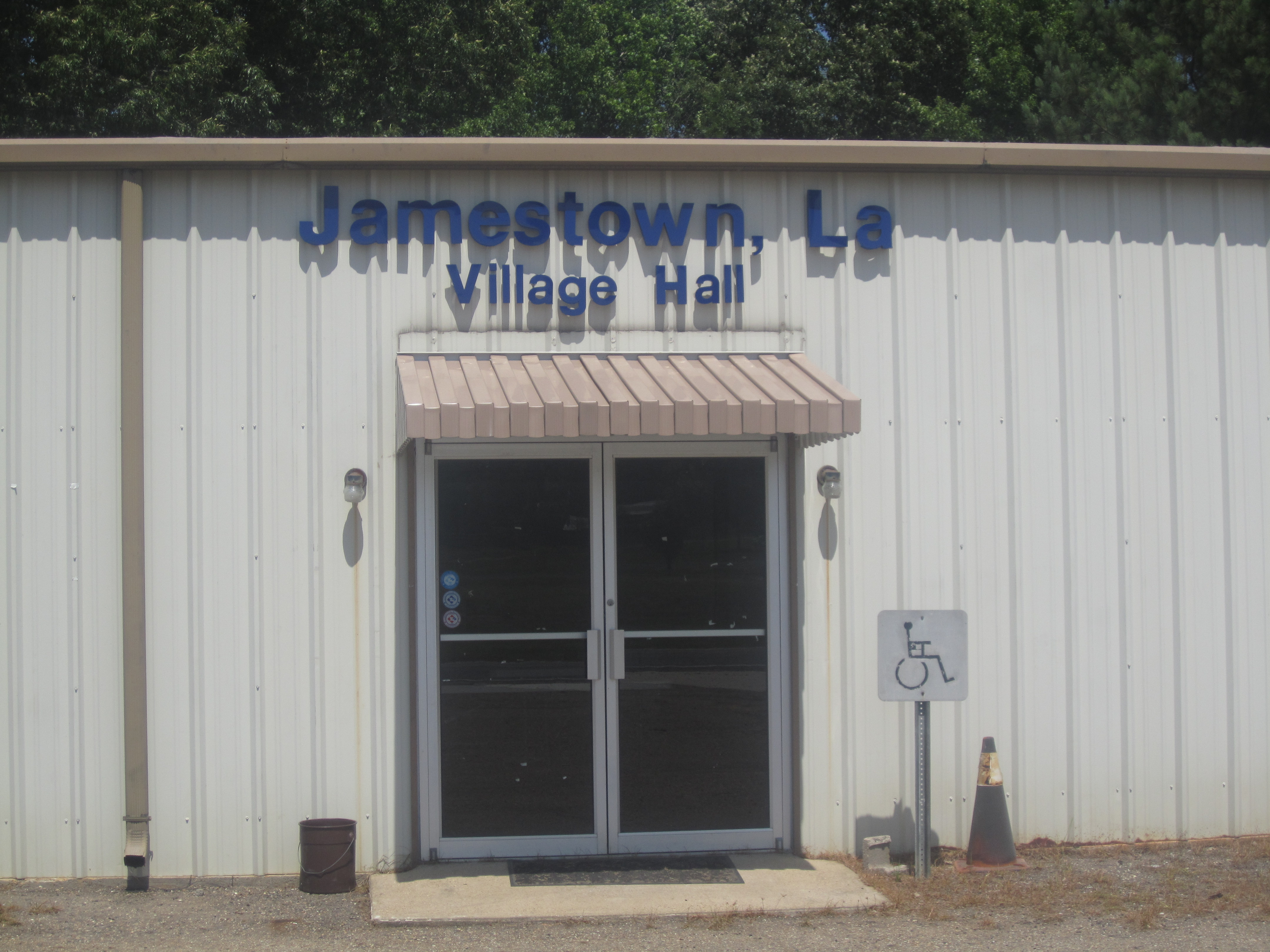 I took photo with Canon camera in Jamestown, LA.